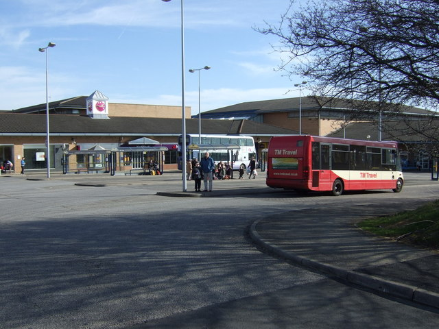 Crystal Peaks bus station, Sheffield